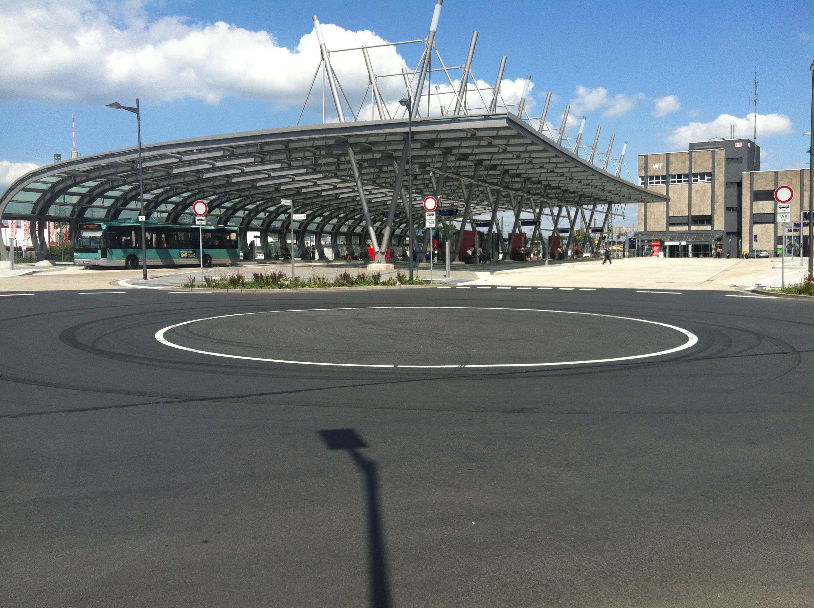 Wetzlar bus station, opened in May 2012